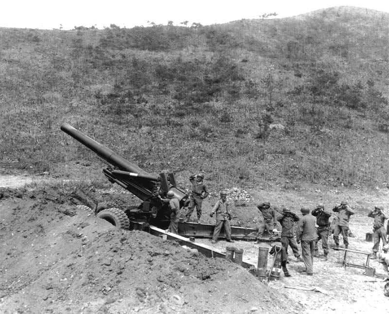 SC363702 - Men of Battery A, 17th Field Artillery Battalion, EUSAK, cover their ears as unit leader gives the signal for firing the 8-inch howitzer, north of Chunchon, Korea.